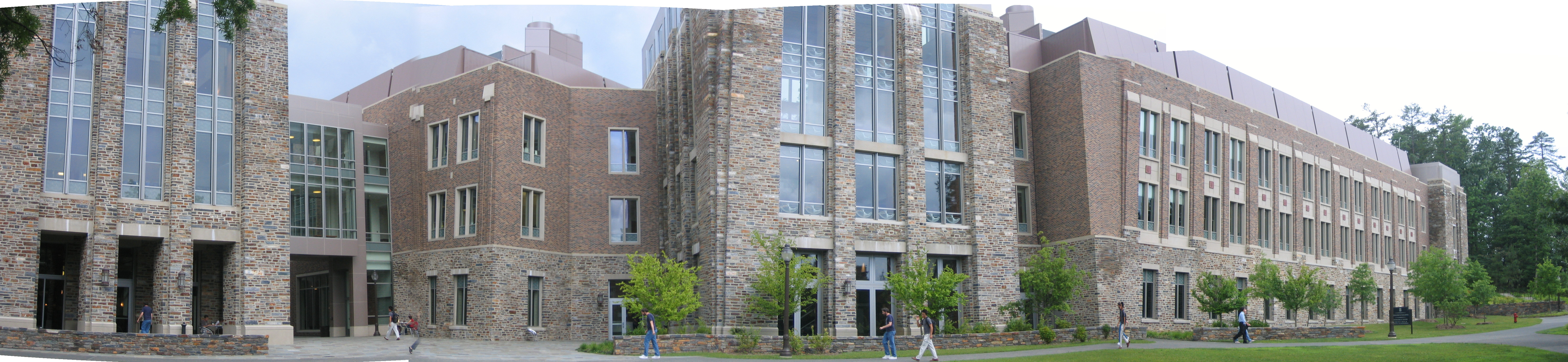 CIEMAS at Duke University